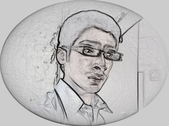 Its Rafhan Shaukat's sketch.